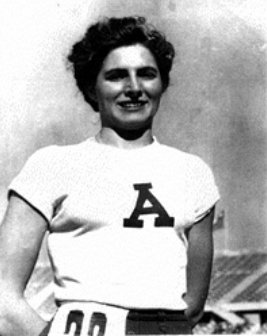 Noemí Simonetto. Athlet. Argentina.